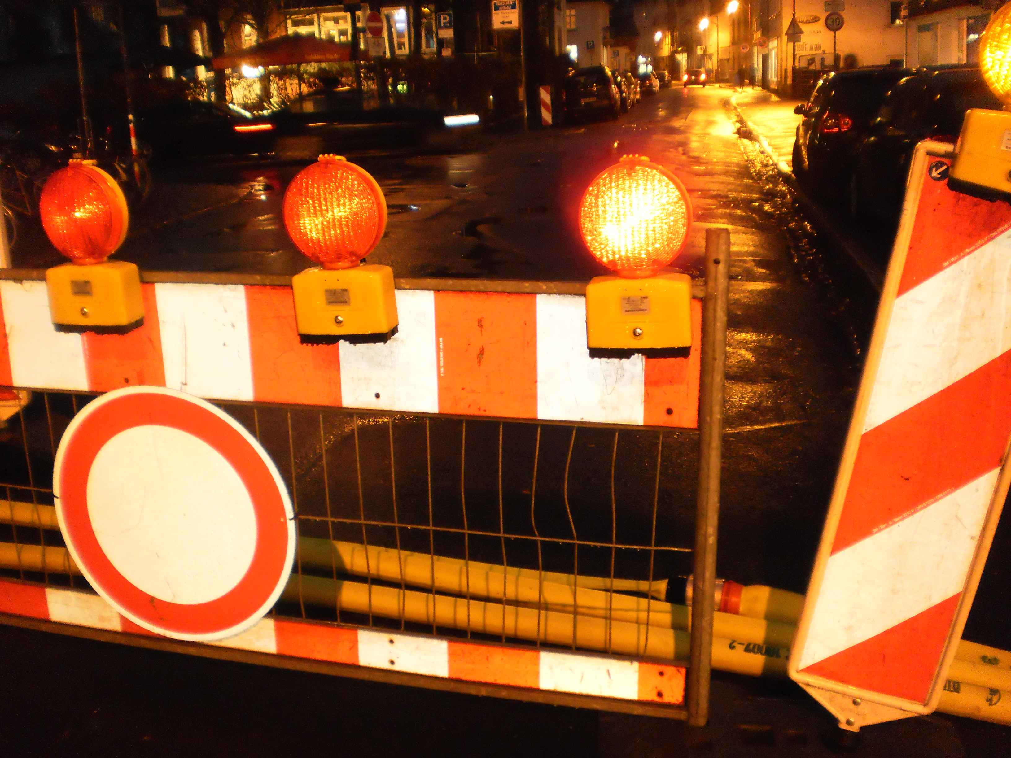 Road barrier in Marburg for yellow tubes across a street to pump water in a cellar near river bank back to river Lahn. Floods caused that damage by rising groundwater near river Lahn after January 2018 snowmelt and rain in Germany, winter 2018.